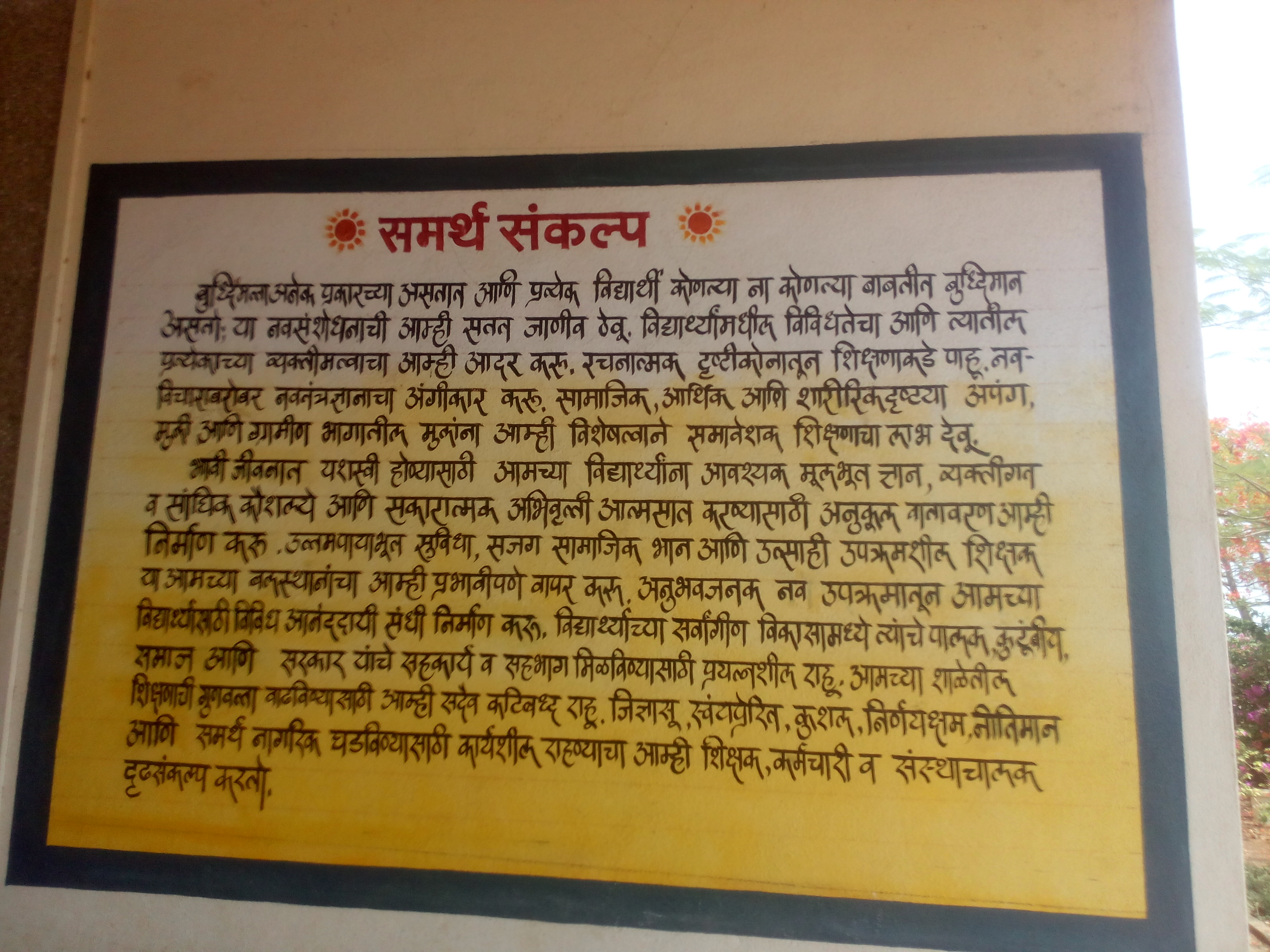 Samarth Sankalp